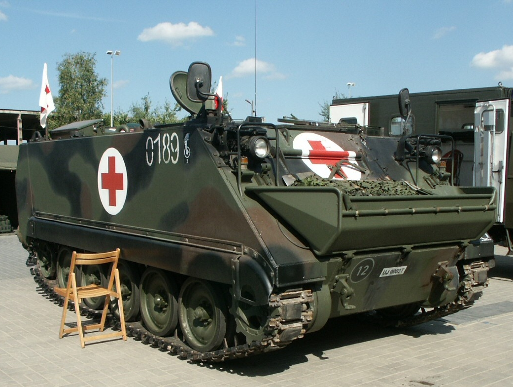 Polish ex-German M113-based armoured ambulance at MSPO 2005.